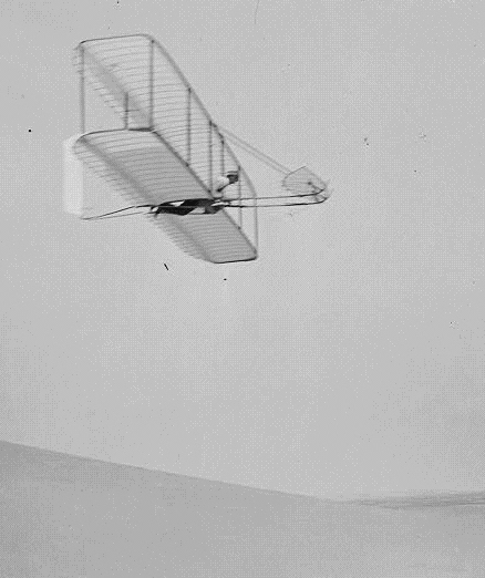 Wilbur Wright piloting 1902 glider near Kitty Hawk, N.C.